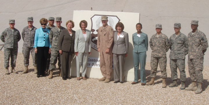 Speaker Nancy Pelosi and the Congressional Delegation in Qatar on May 8th. The Members visited the commanders and service members stationed at the Al Udeid Air Base outside of Doha. Qatar serves as a base for U.S. CENTCOM Forward Headquarters, which oversees military operations in Iraq and Afghanistan. Speaker Pelosi is joined by Susan Davis of California, Chair of the Armed Services Subcommittee on Military Personnel; Madeleine Bordallo of Guam, Member of the Armed Services Committee; Niki Tsongas of Massachusetts, Member of the Armed Services Committee; and Donna Edwards of Maryland, Member of the Science and Technology Committee.